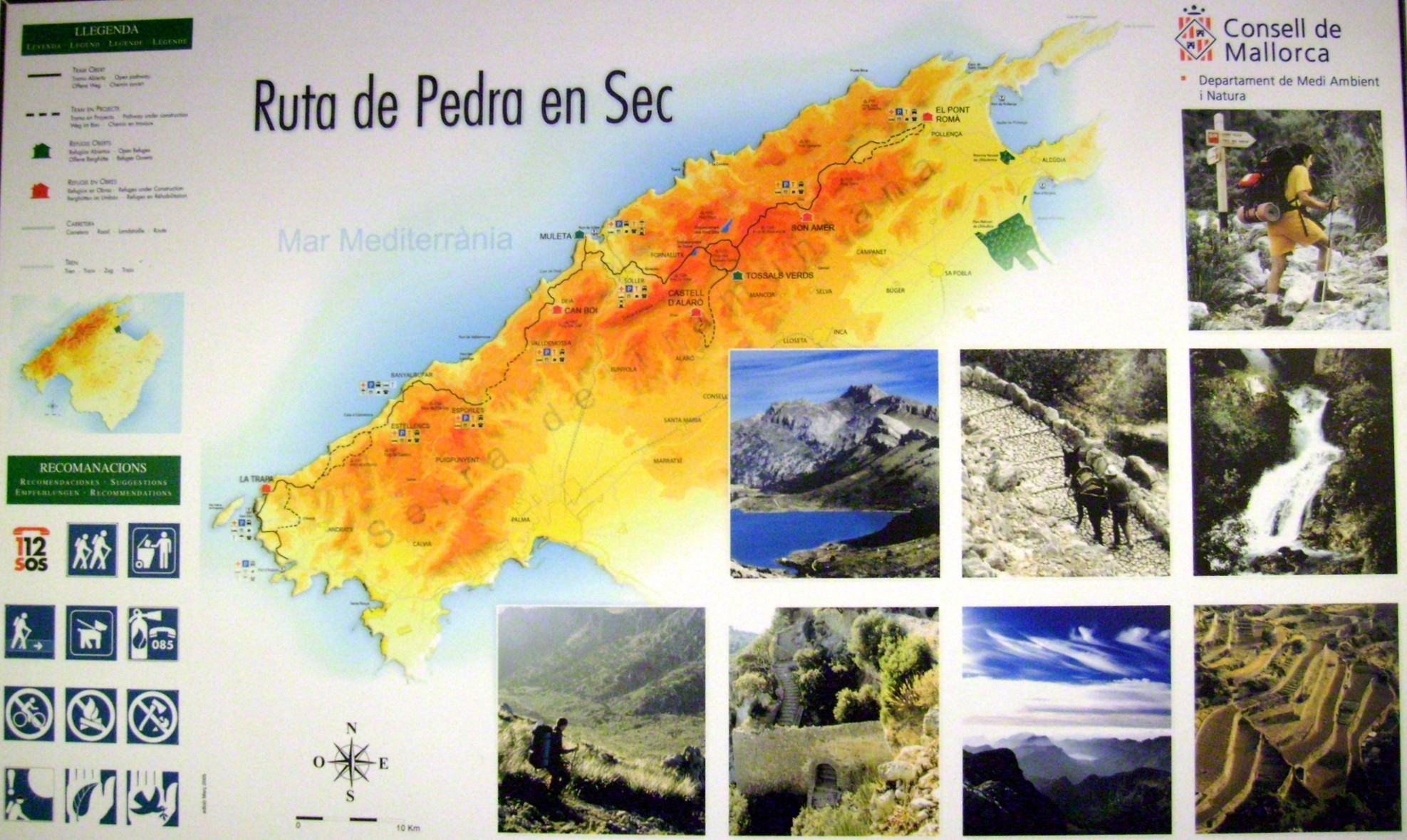 Infomap GR 221 — found in Refugi Son Amer: Ruta de Pedra en Sec (Old version - Refugis Can Boi, Son Amer and Pont Romà are now ready)